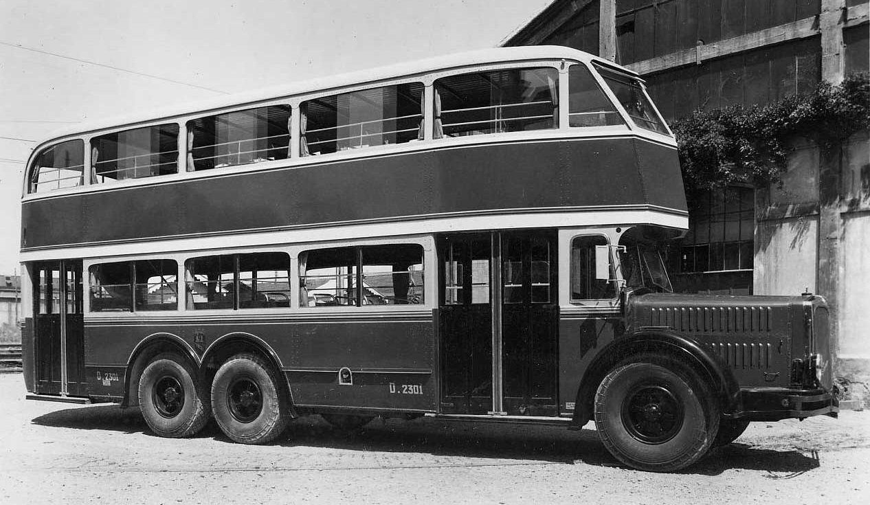 Alfa Romeo 110-AC, built in 1936, body by Macchi